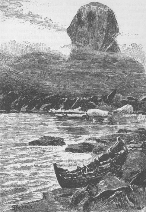 An illustration from Jules Verne's novel "The Sphinx of the Ice Fields" (or "An Antarctic Mystery", 1895) drawn by George Roux.